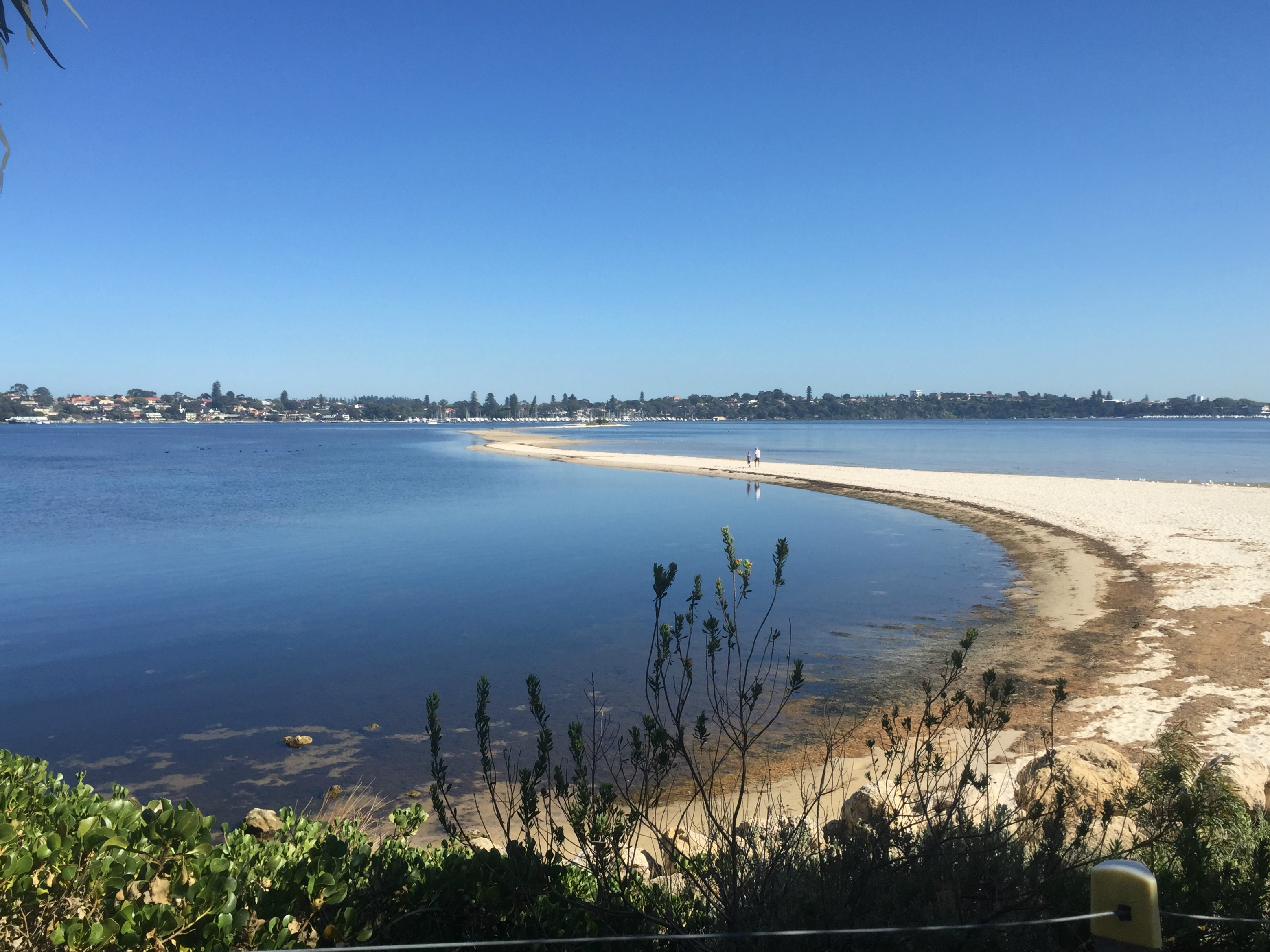 Looking out at sandbar from Point Walter, Australia